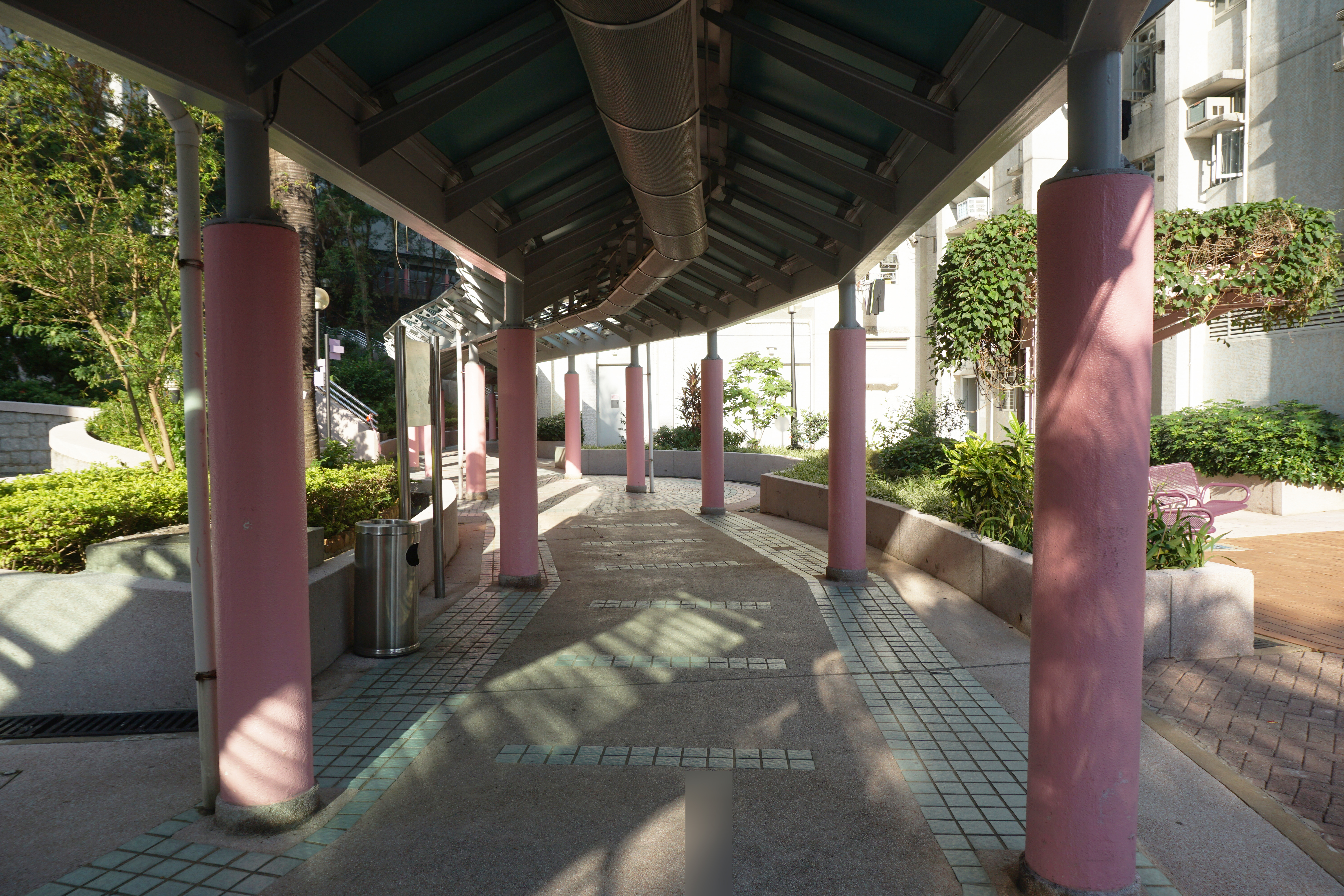 Tsz Oi Court in Tsz Wan Shan, Hong Kong.